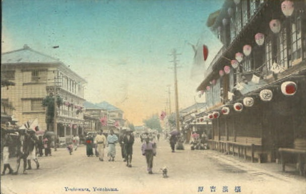 Postcard of the ’Yoshiwara’ in Yokohama, c. 1910